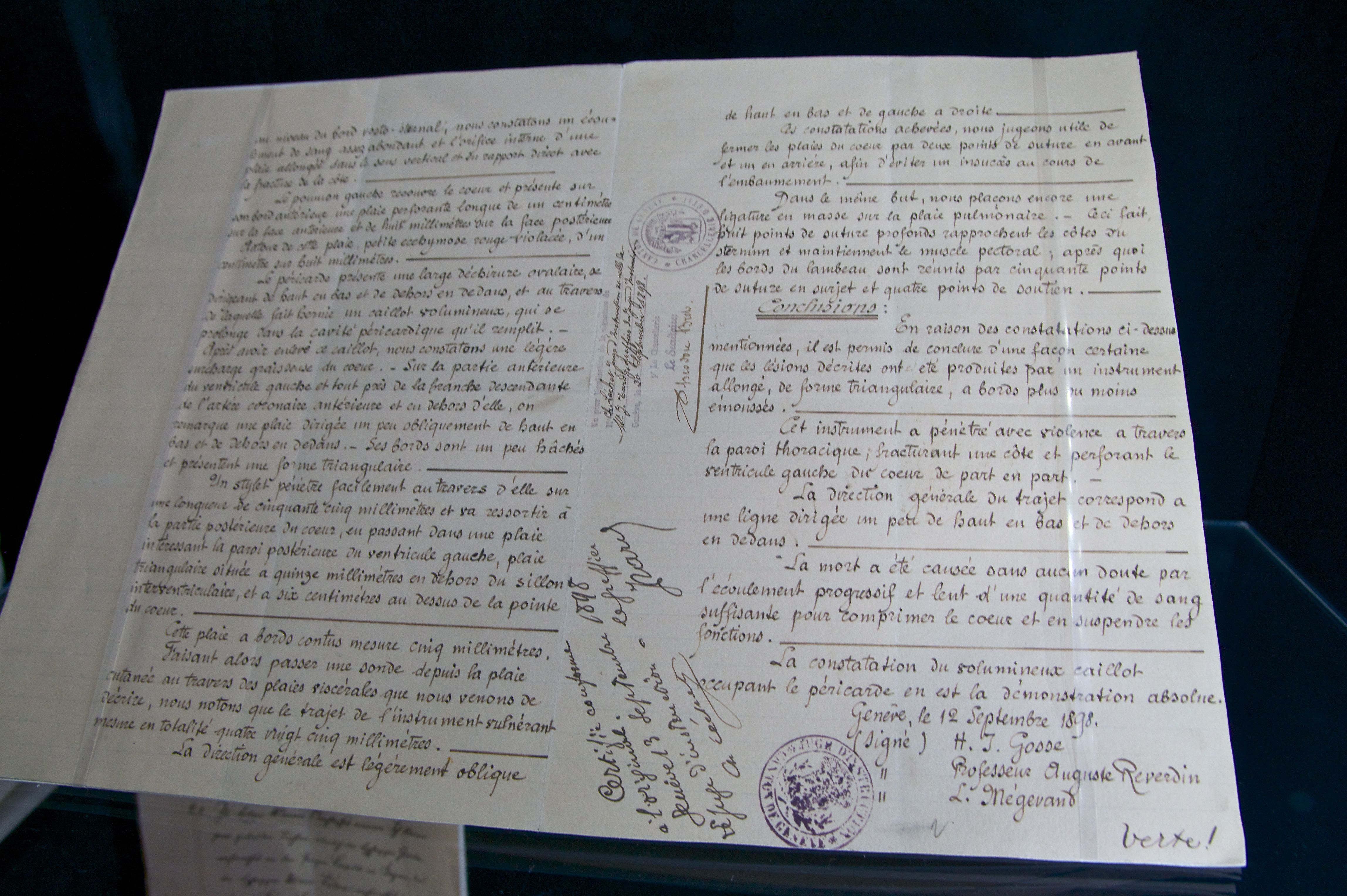 Picture of an official copy (not a photocopy) of the last folio of the minutes of the autopsy of the body of Empress Elisabeth of Austria (Sisi or Sissi), assassinated in Geneva in 1898, the 10 september.